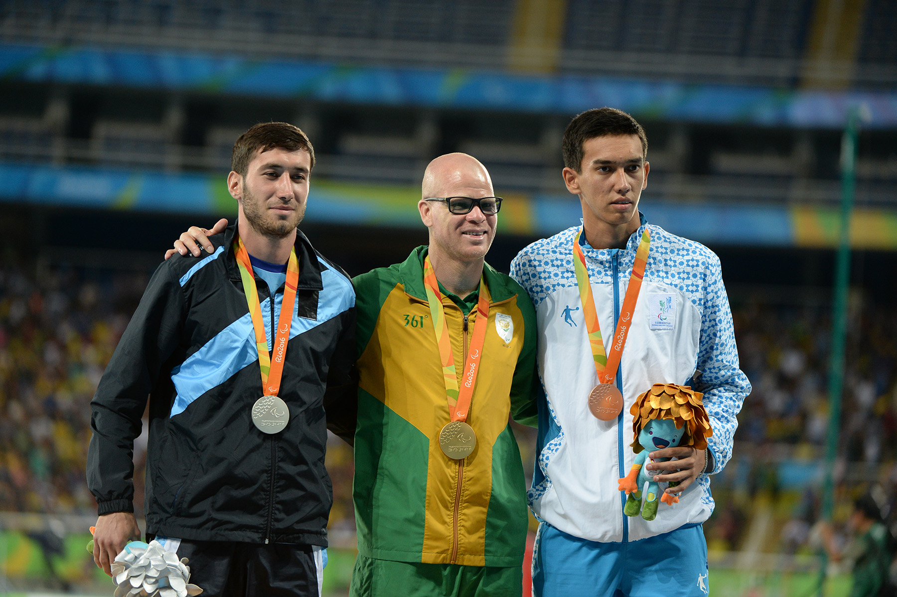 Kamil Aliyev at the 2016 Summer Paralympics – Men's long jump (T12)